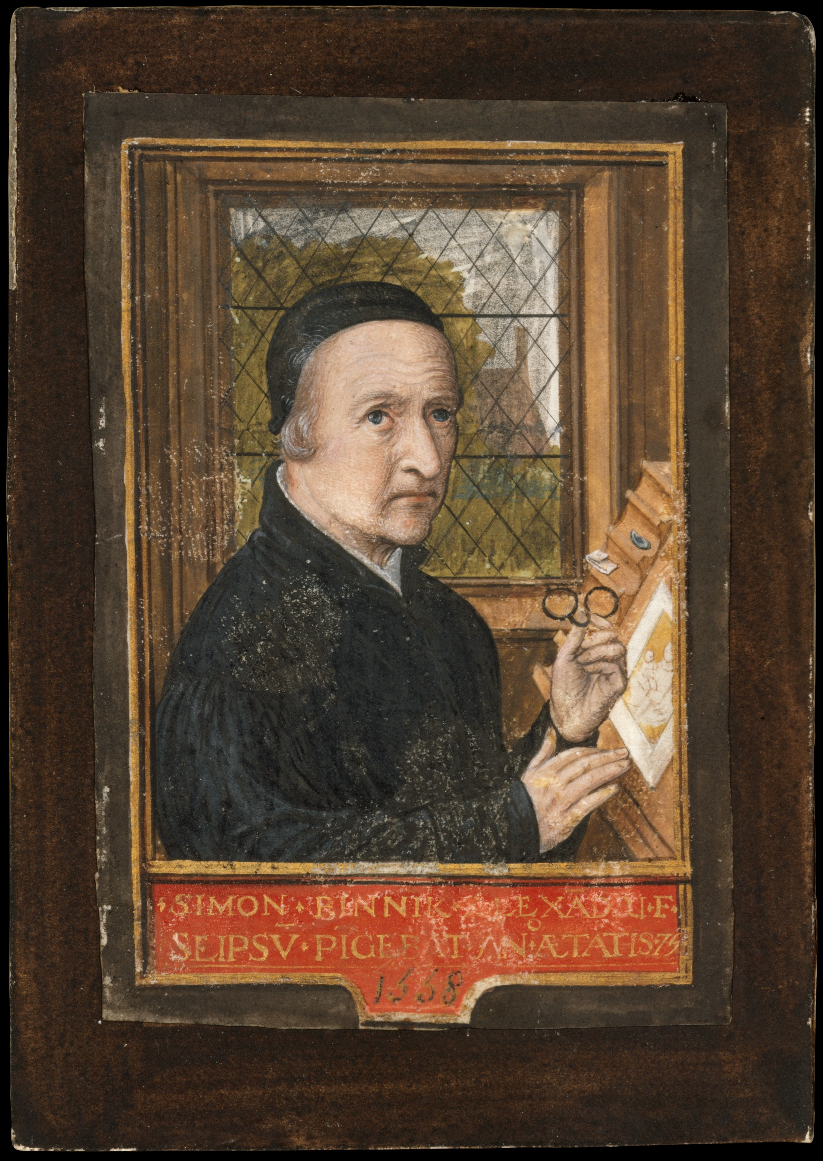 Self-Portrait Simon Bening (1483/1484-1561)